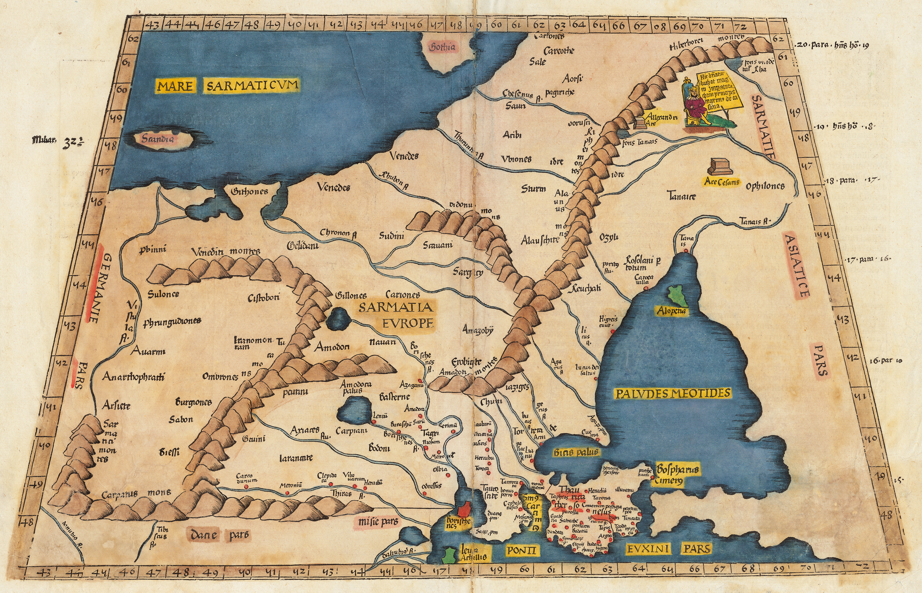 The 8th European Map (Octava Europae Tabula), featuring European Sarmatia, from Holle's edition of Ptolemy's Geography.